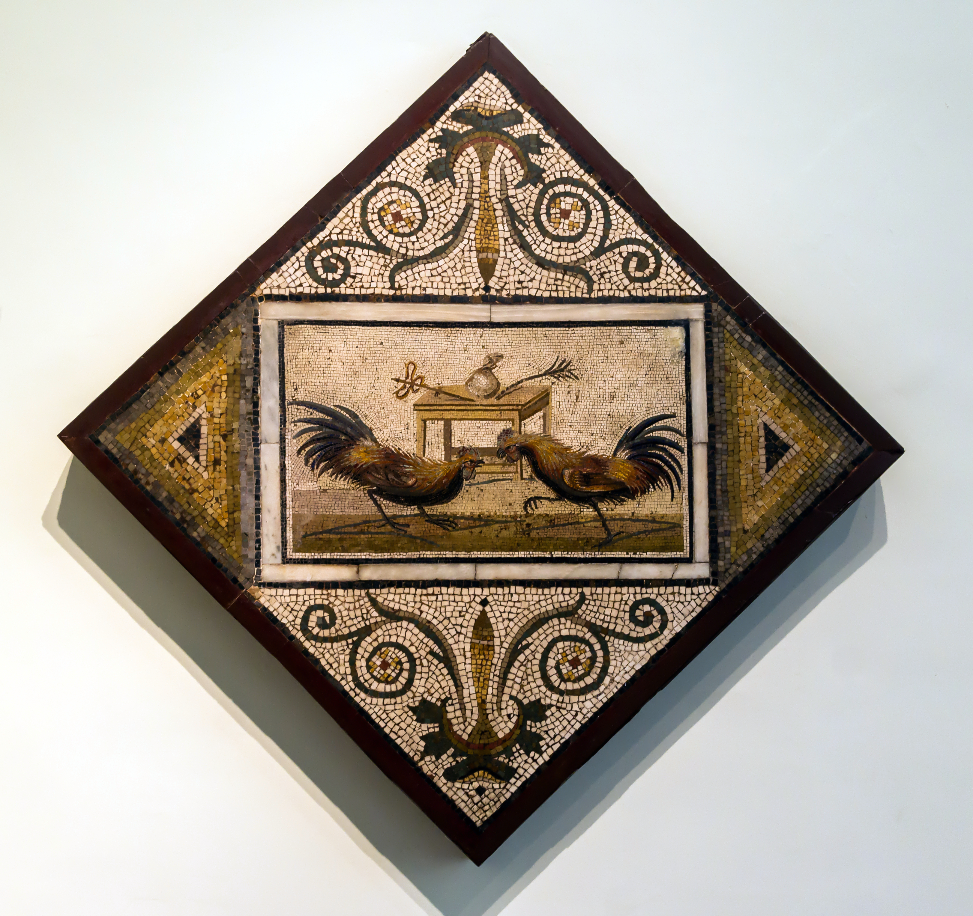 Cockfight, Roman mosaic. Two cocks confront each other in combat before a table displaying the winner's prizes: the purse (a moneybag) flanked by a caduceus and a palm of victory